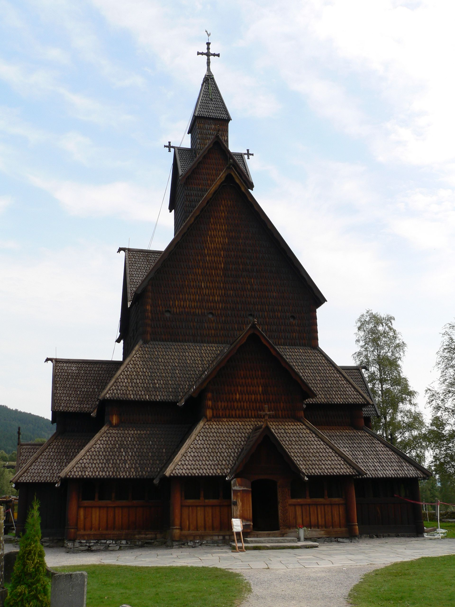 Heddal Stave Church